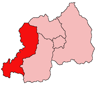 West Province of Rwanda